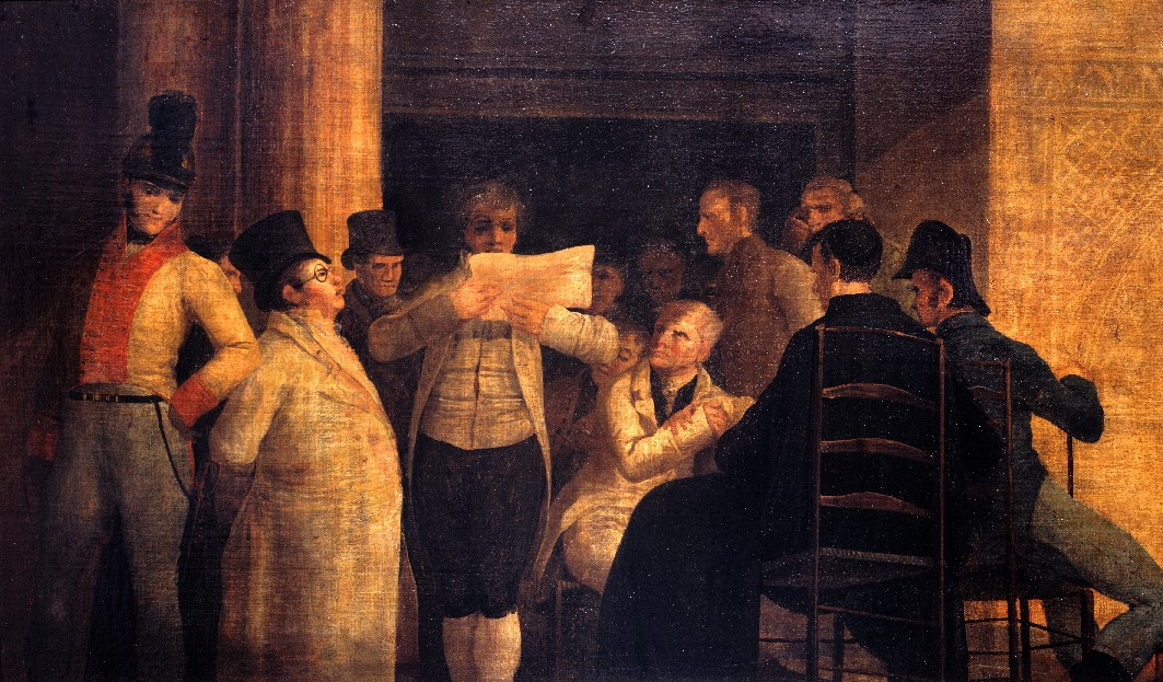 Illustrated pundits at Café de Levante, painting by Alenza to decorate the halls of Levante Coffeehouse in the street of Prado, in Madrid.